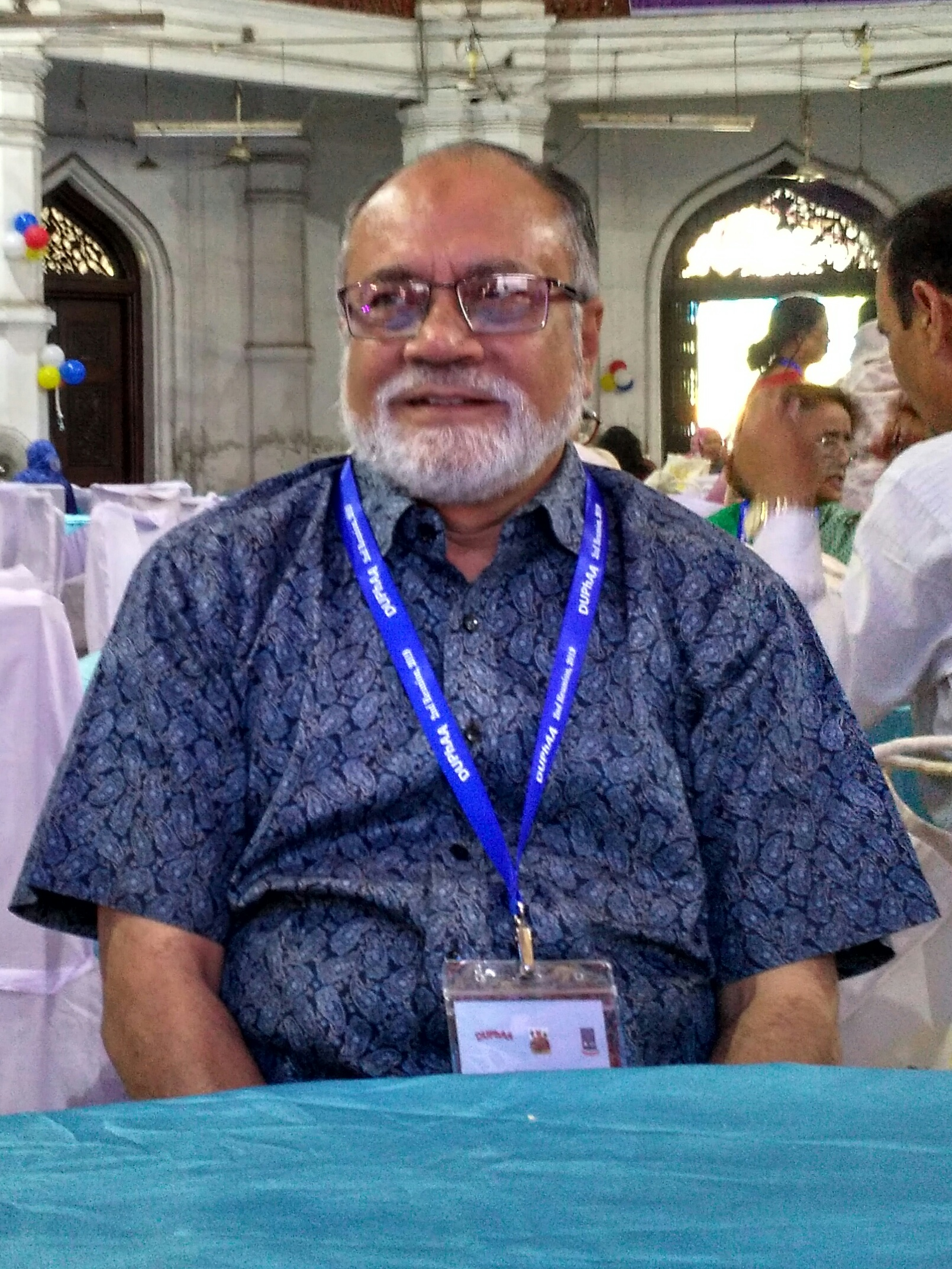 Professor A F M Yousuf Haider at Dhaka University Physics Alumni Association, Curzon Hall, Dhaka University on 29.03.2019